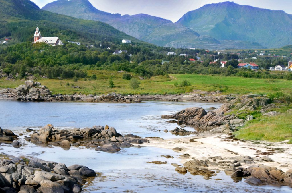 Photography by Haakon S. Rist.